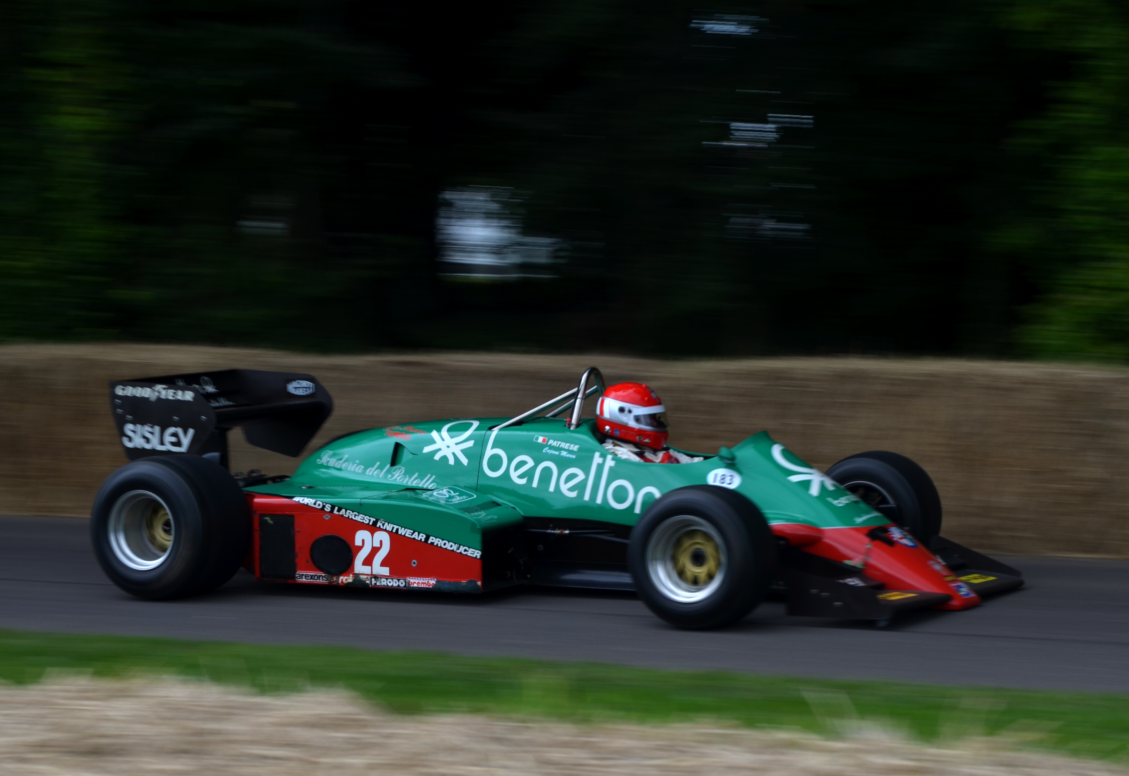 1983 turbo Formula 1 car at the 2012 Goodwood Festival of Speed.